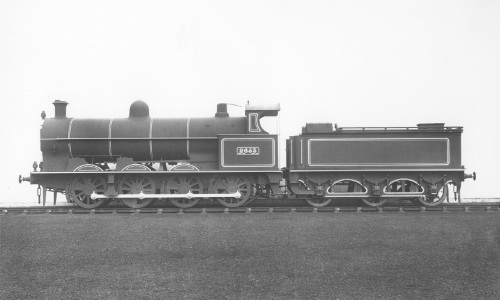 Photograph of LNWR engine No. 2653 G Class